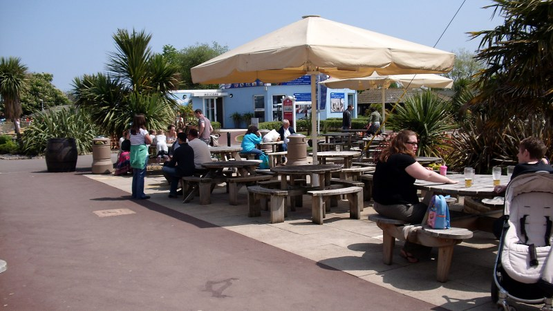 Butlins Minehead resort October 2010, a typical view showing landscaping and outdoor seating area.